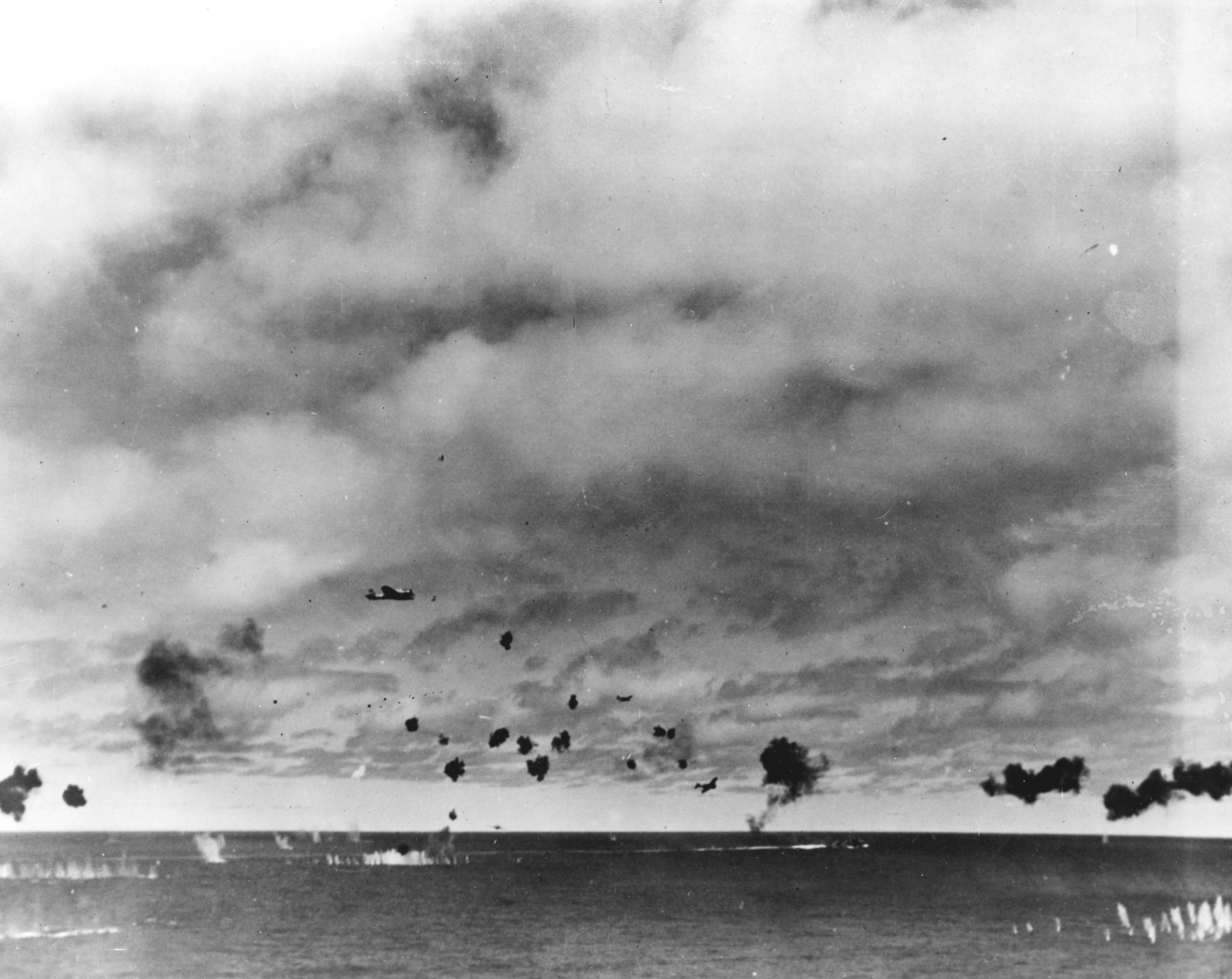 Japanese Nakajima B5N2 "Kate" Type 97 shipboard attack aircraft from the carrier Hiryu amid heavy anti-aircraft fire, during the torpedo attack on the U.S. Navy aircraft carrier USS Yorktown (CV-5) in the mid-afternoon, 4 June 1942. At least three planes are visible, the nearest clearly having already dropped its torpedo. The other two are lower and closer to the center, apparently withdrawing. The smoke on the horizon in right center is from a crashed plane. It is possible that the object very close to the horizon, in center, is another attacking aircraft.